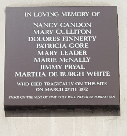 This plaque commemorates an accidental fire at the timber factory belonging to the Noyeks company on Parnell Street in Dublin north inner city on March 27, 1972